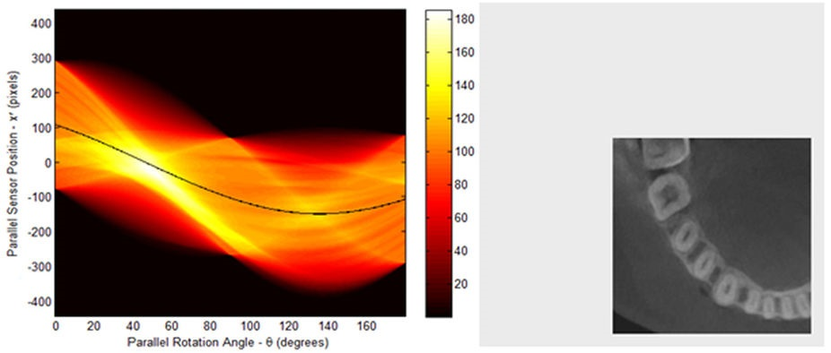 A CT sinogram (left) and an image sample (right). Caption from the article: The object is on the lower right side of the stage. The P C A → {\displaystyle {\overrightarrow {P_{CA s of all projections are marked in black in the sinogram. They follow the circular trajectory in real space, therefore show the sinusoidal graph in the sinogram.